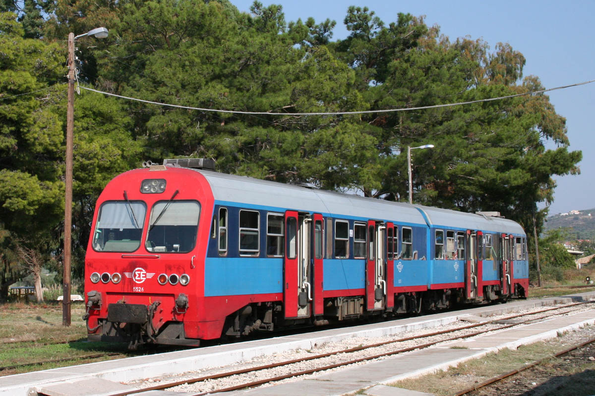 OSE MAN DMU at Kyparissia station.